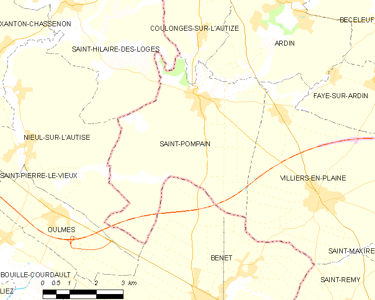 Map of French municipality Saint-Pompain